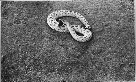 Crotalus cerastes —Sidewinder rattlesnake, in California. Photo on p. 134 in the book California Desert Trails, by Joseph Smeaton Chase, 1910s.